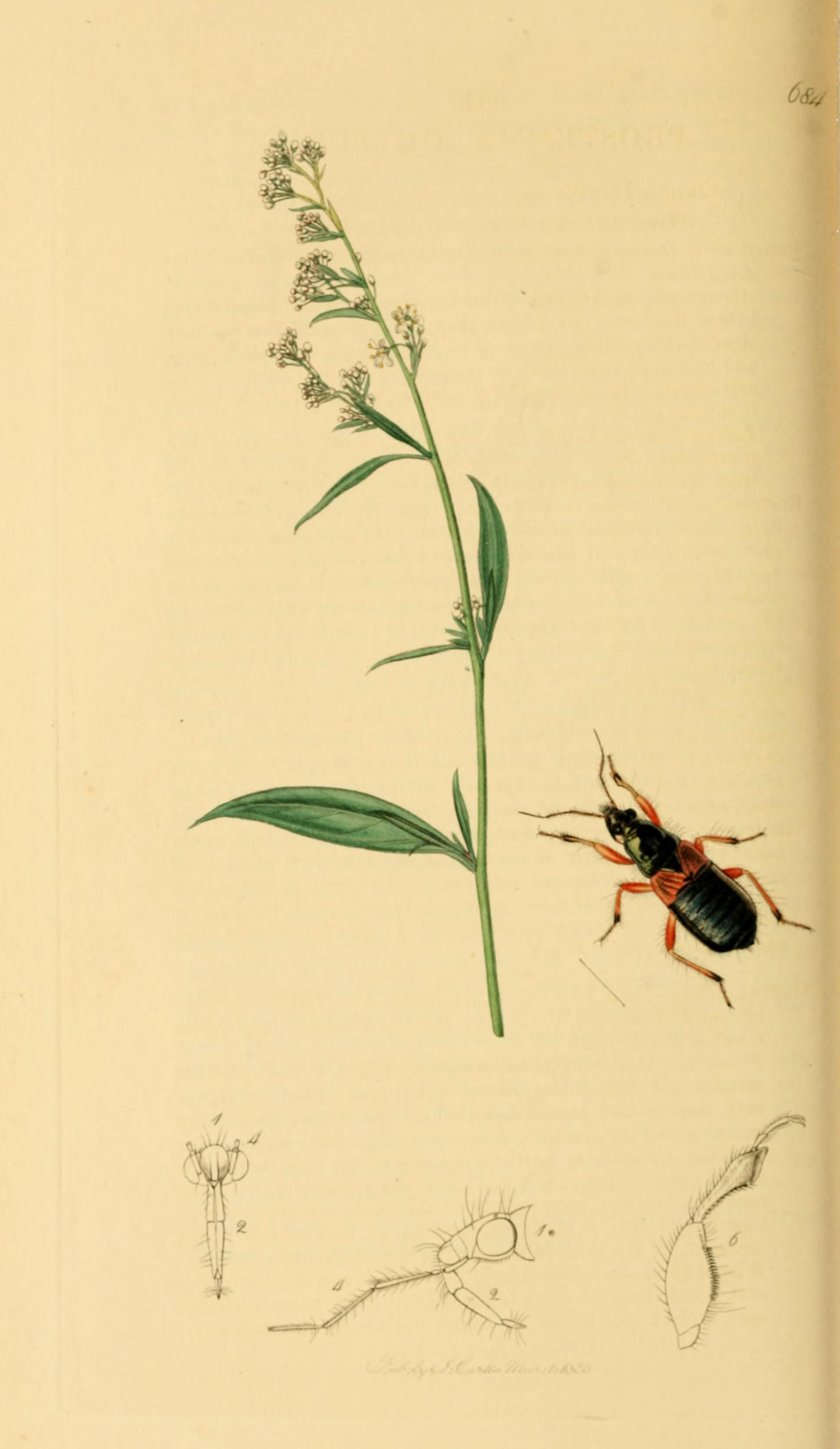 John Curtis British Entomology (1824-1840) Folio 684 Prostemma guttula. The plant is Lepidium latifolium (Dittander).